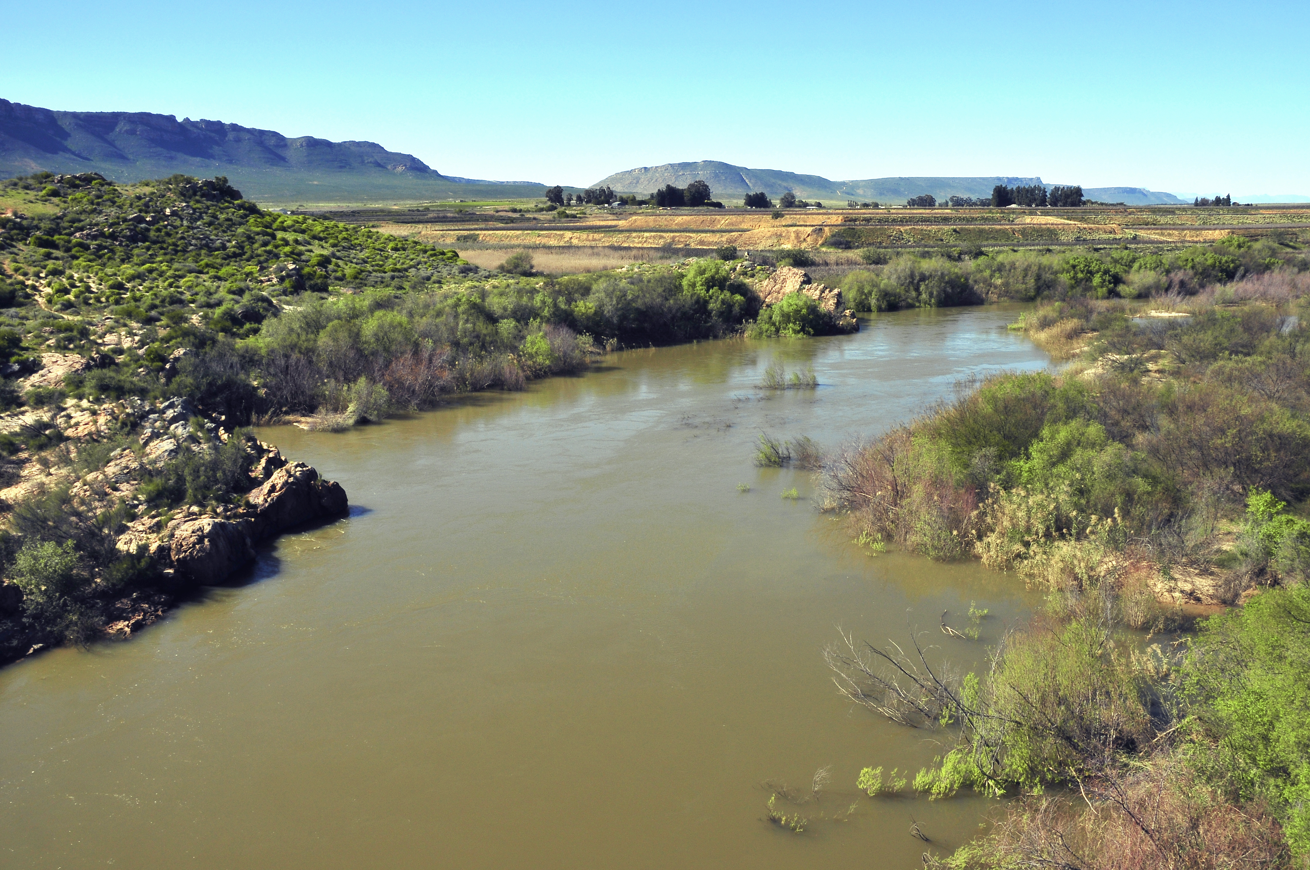 Olifants River, at the crossing with N7 Road, south of Klawer . Western Cape, South Africa